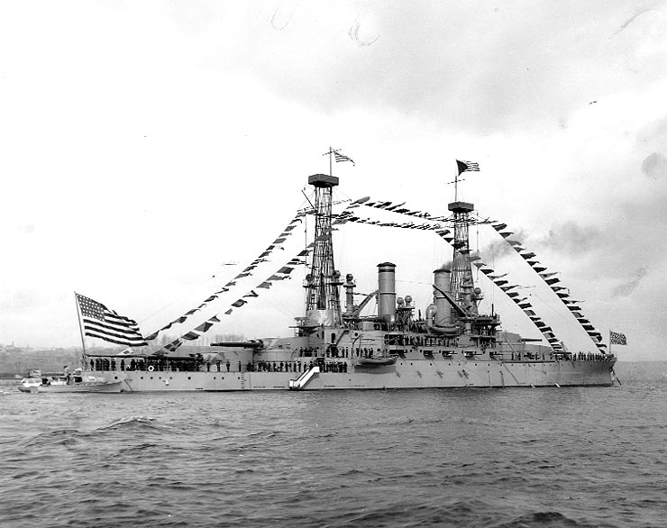 USS Michigan dressed with flags & manning the rail, October 1911; Photo # 19-N-61-25